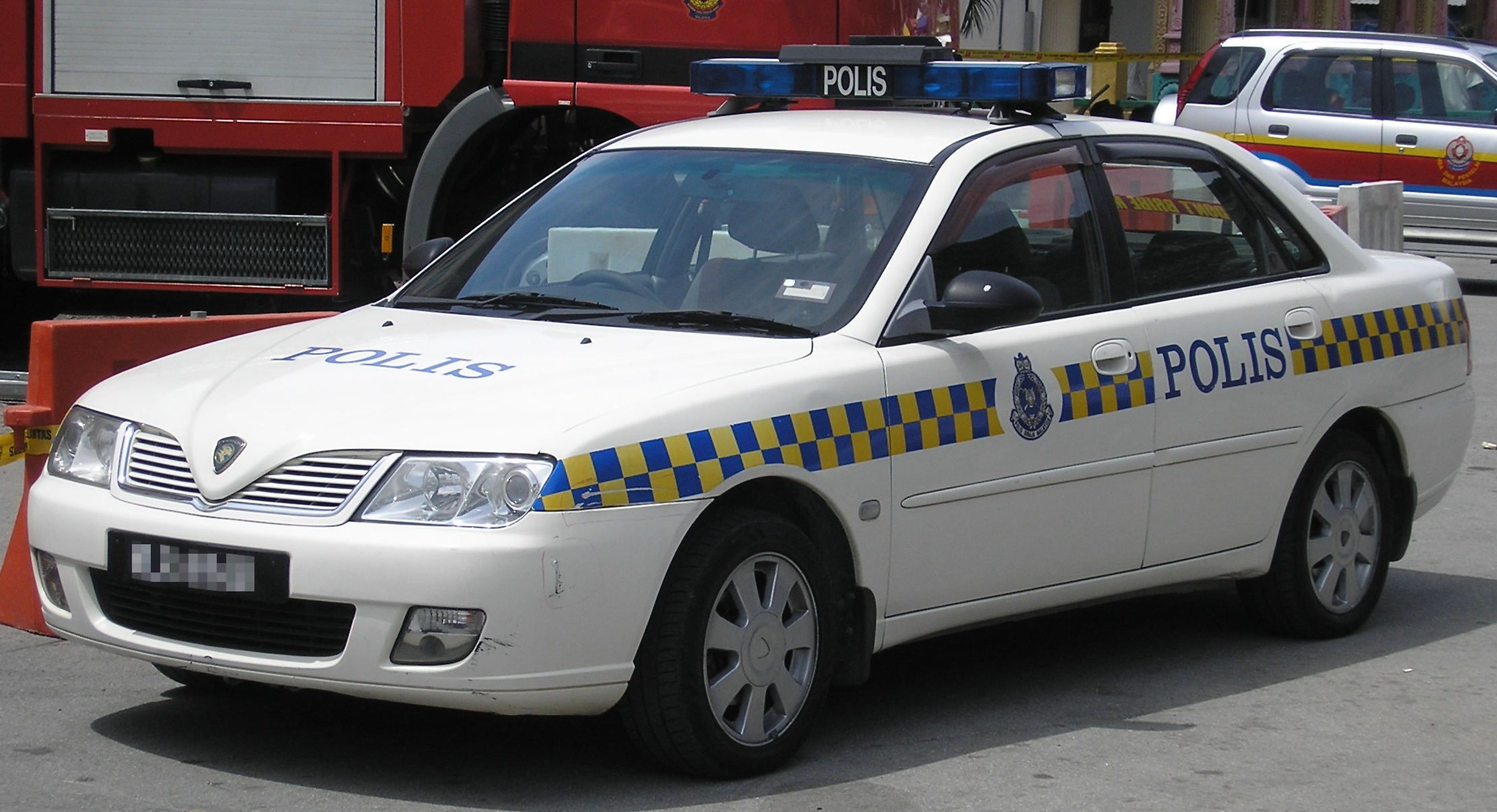 Front quarter view of a first generation, first facelift Proton Waja, as a patrol/pursuit car for the Royal Malaysian Police, in Batu Caves, Selangor, Malaysia. The car's livery, standard on current patrol cars in Malaysia, consists of an all-white paintwork with Battenburg stripes on its sides, with the addition of the Royal Malaysian Police emblems and "Police" texts in Malay (Polis).